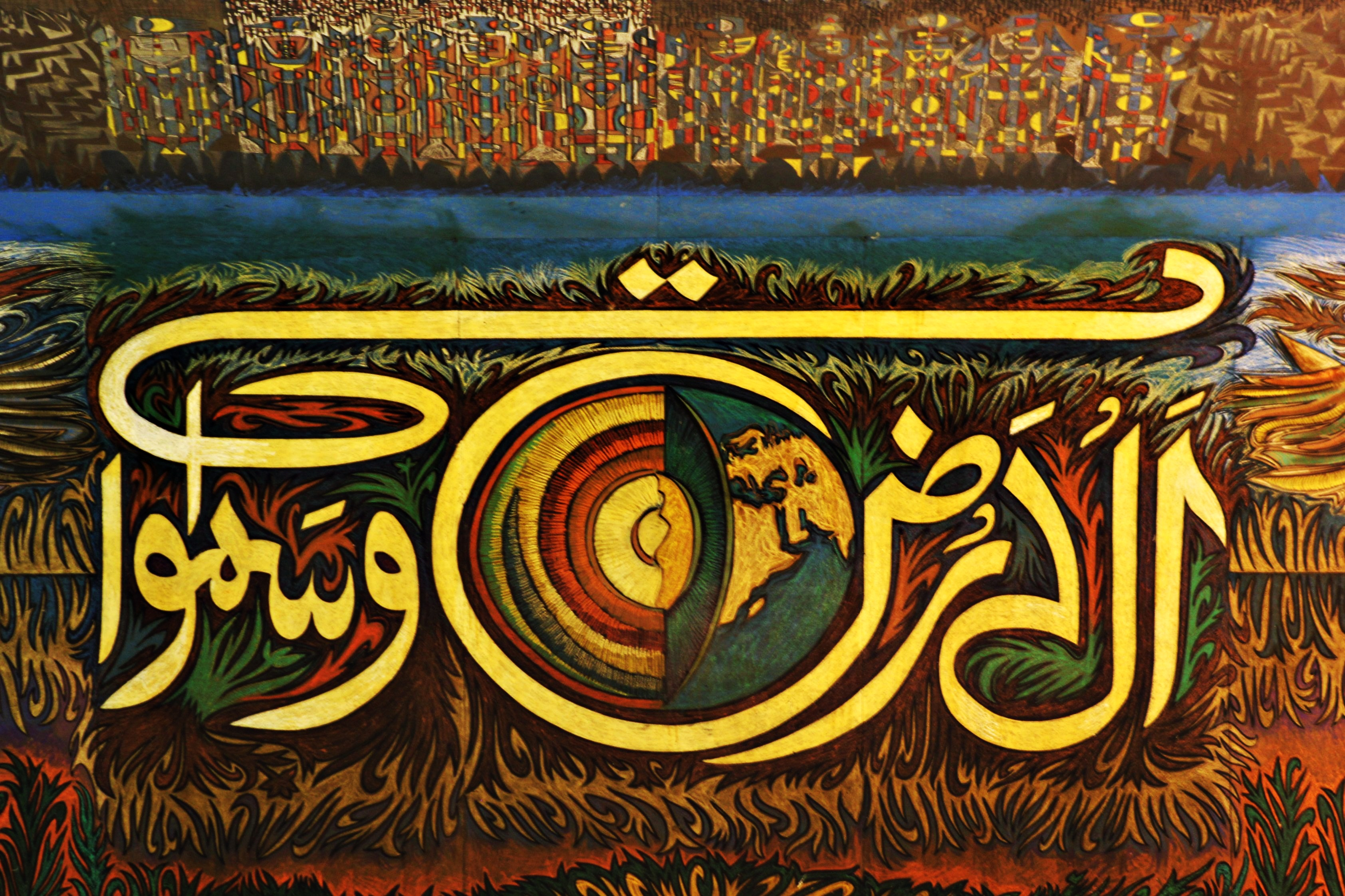 Pakistani Artist Sadequain's mural Arz-o-Samawat on the roof of Frere Hall, Karachi, Pakistan. This is a photo of a monument in Pakistan identified as the SD-34